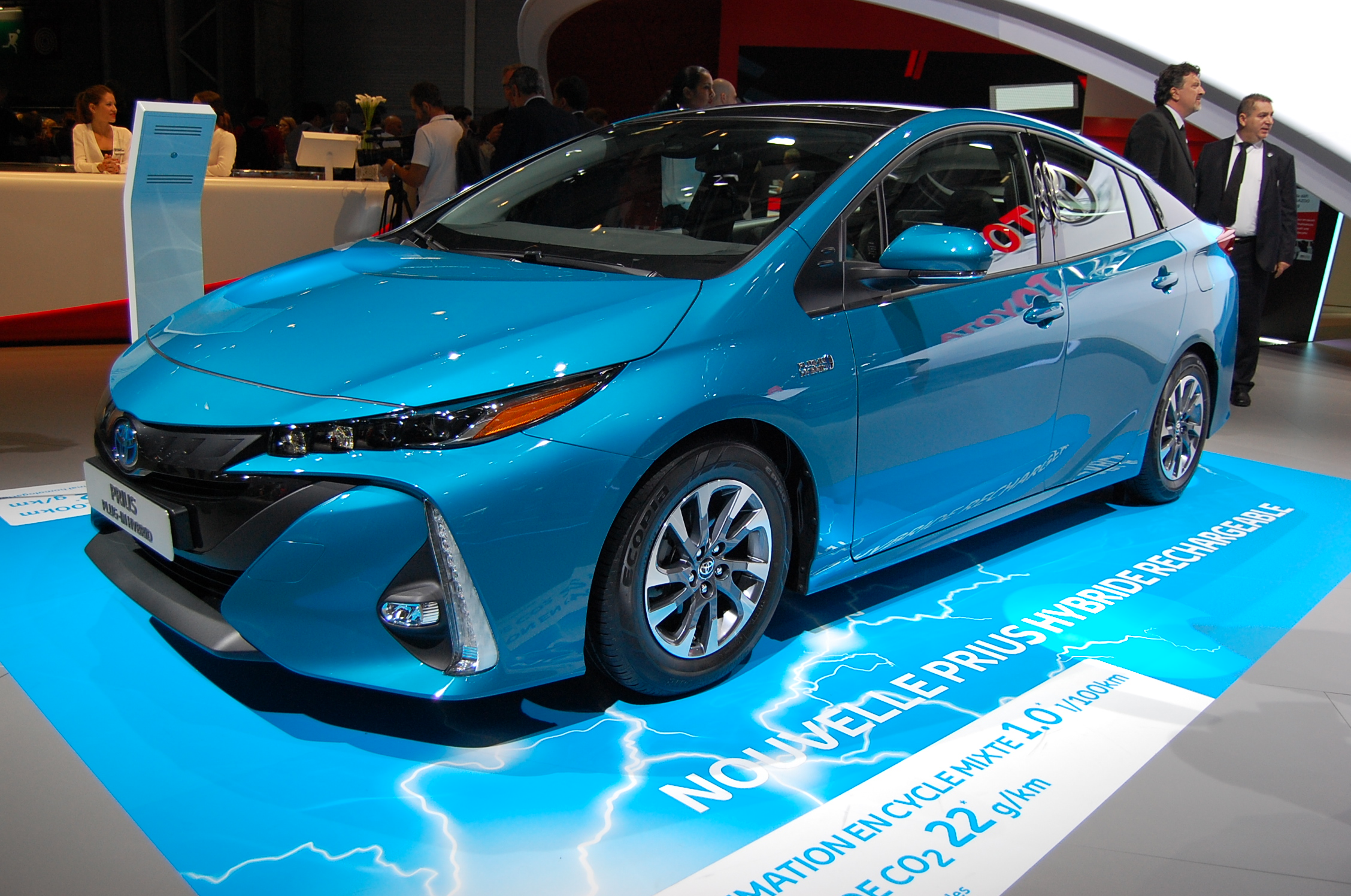 Second generation Toyota Prius Plug-in Hybrid (Prius Prime in North America) at the Paris Motor Show - September 2016